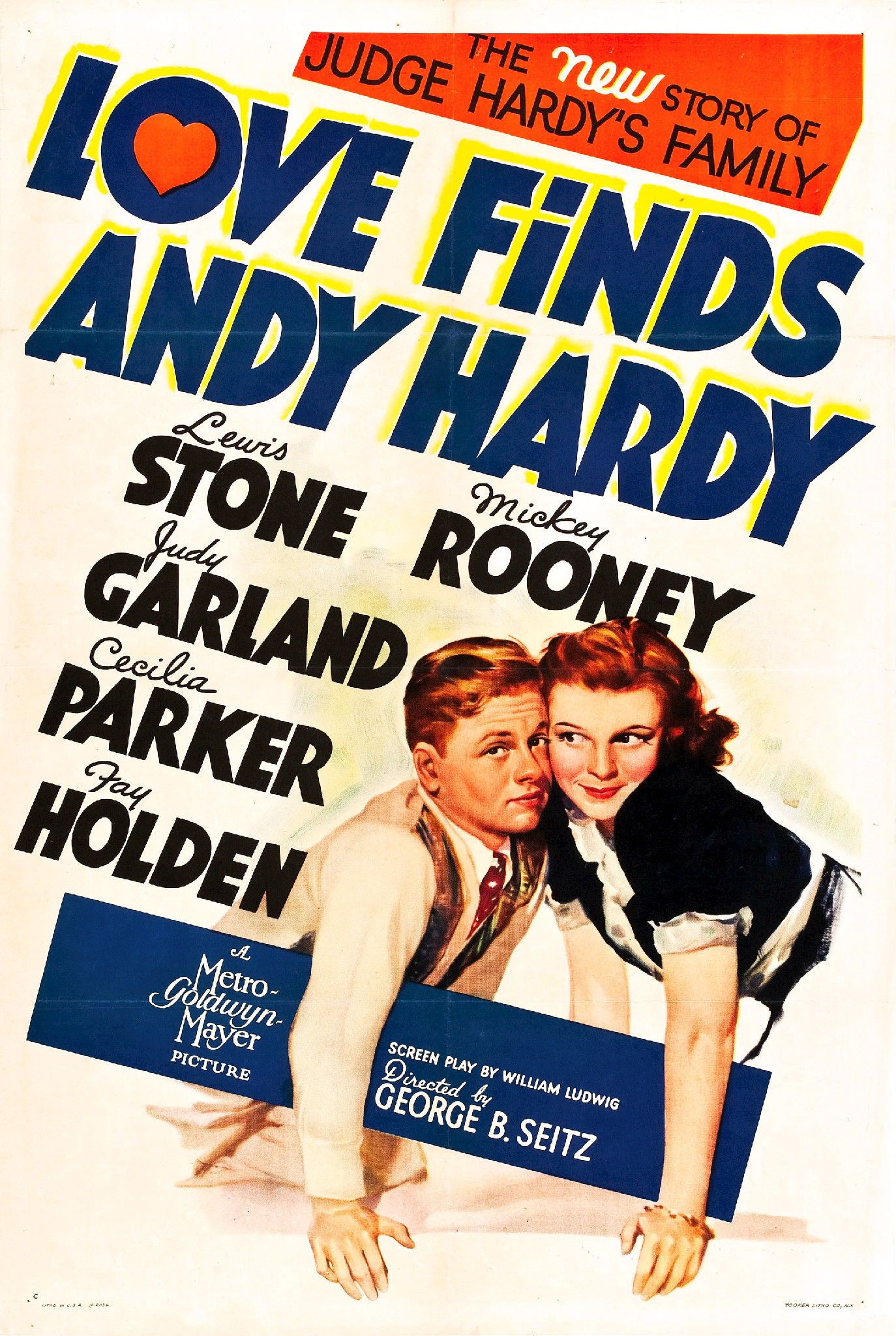 Poster for the 1938 film Love Finds Andy Hardy. The item has no copyright marks on it as can be seen at links and original upload. At bottom left is "C" (poster version C), Litho in USA, and #2034. At bottom right is Tooker Litho Co, NY-they printed the poster.